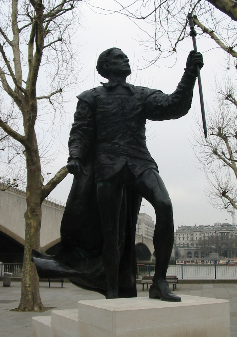 London